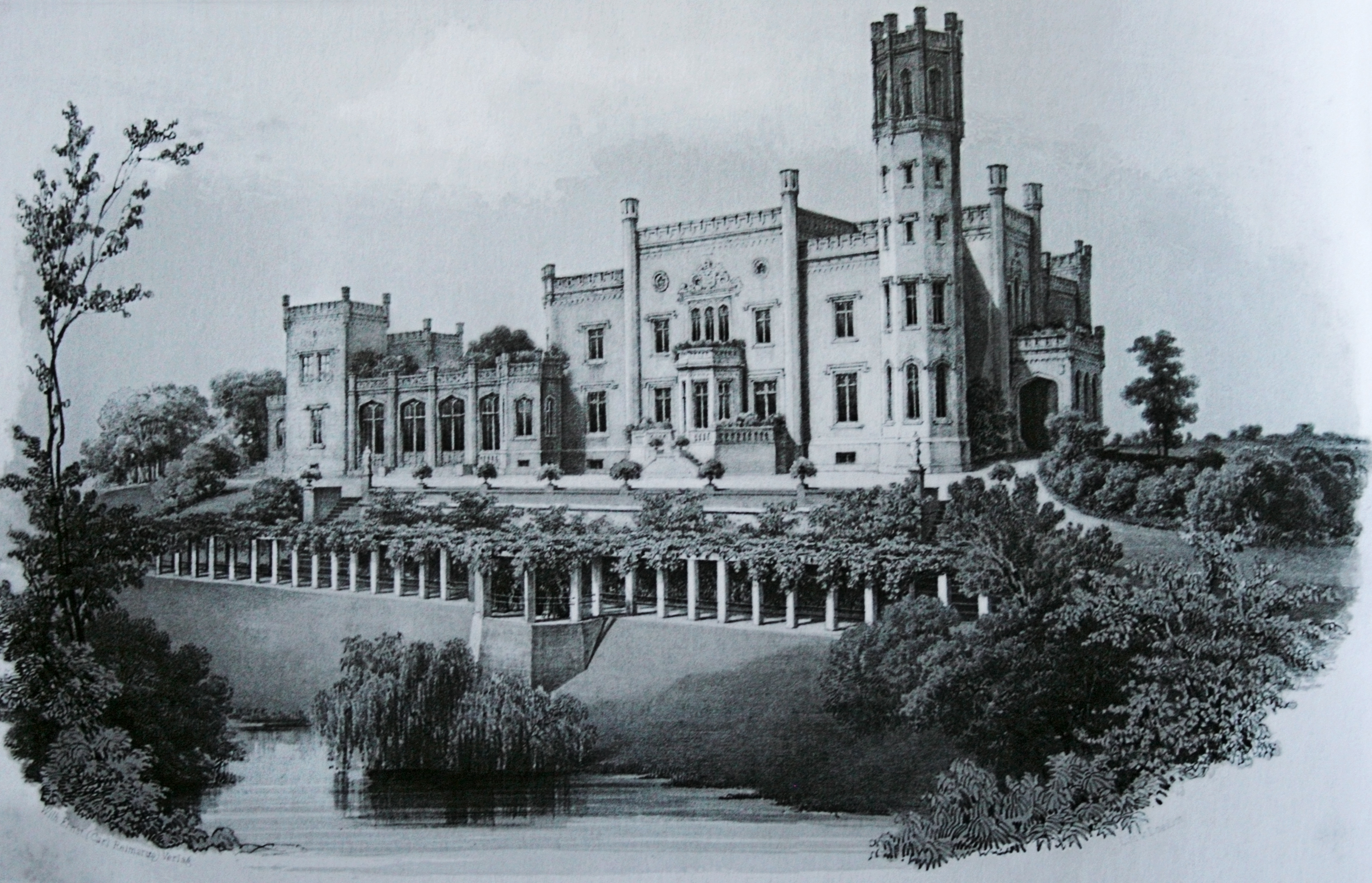 Schloss Kittendorf, Deutschland, Litografie der Südostfront des Schlosses, um 1855